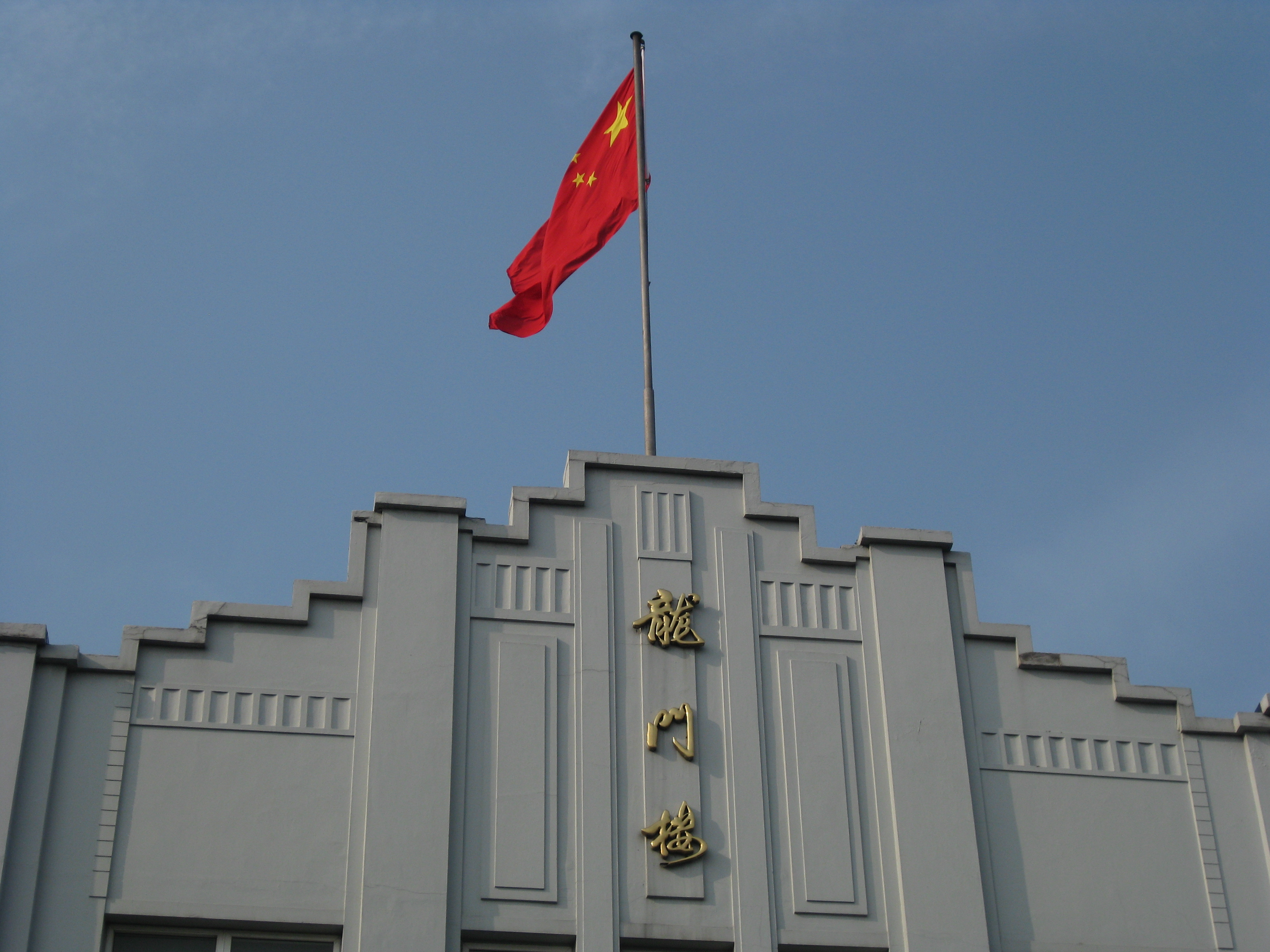 A picture of the Longmen Building with Chinese flag.